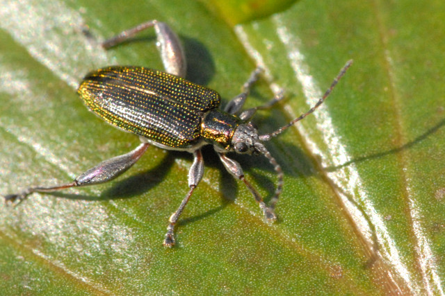 Donacia versicolorea from Commanster, Belgian High Ardennes .